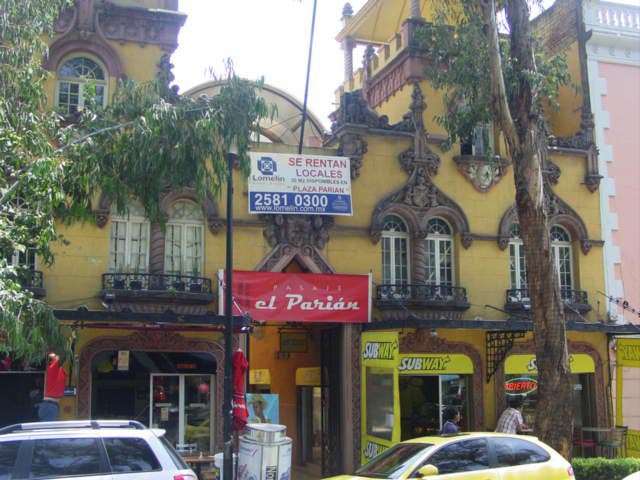 El Parian, Colonia Roma, Mexico City